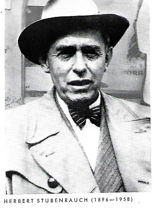 Dr. Herbert Stubenrauch, * 1896 (Chi) - 1958 (Mannheim)